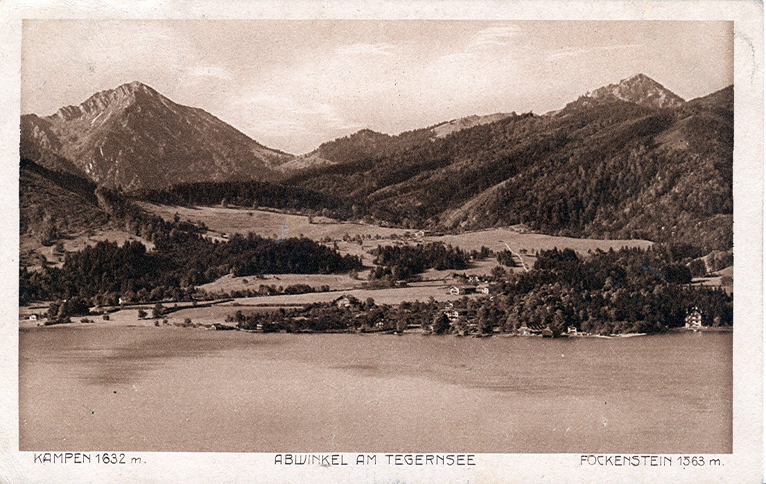 Postcard, undated ( ca.1914 ). Title: "Abwinkel at Tegernsee - Kampen 1632m - Fockenstein 1563m."